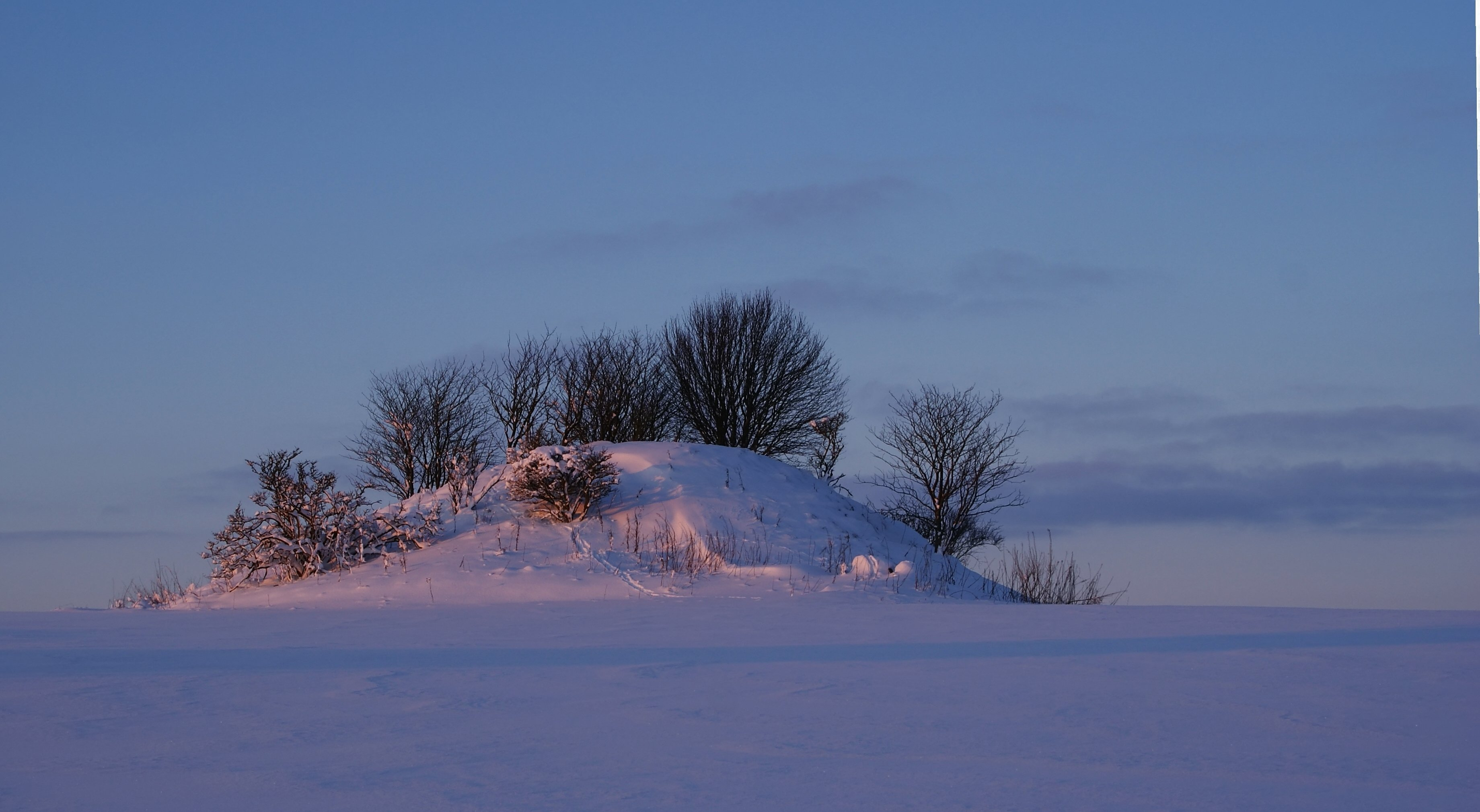 The tumulus Tinghøjen near road A16 between the towns Hammershøj and Kvorning, Central Denmark Region, Denmark. Period Antiquity Conservation number 191141 Conservation status B (1938) Surroundings Agricultural fields Registrations 1892-1893: Untouched tumuli, 14' high, 1938: Almost untouched, height 7-8 m, diameter 25 m, side damaged.